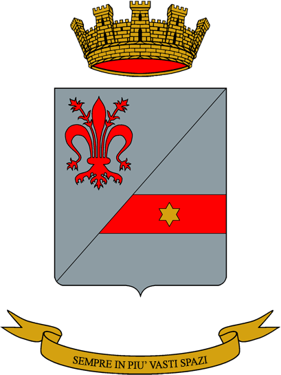 Coat of Arms of the 2° Signals Regiment; Italian Army.